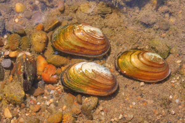 Unio crassus, River Kupa/Kolpa, Slovenia